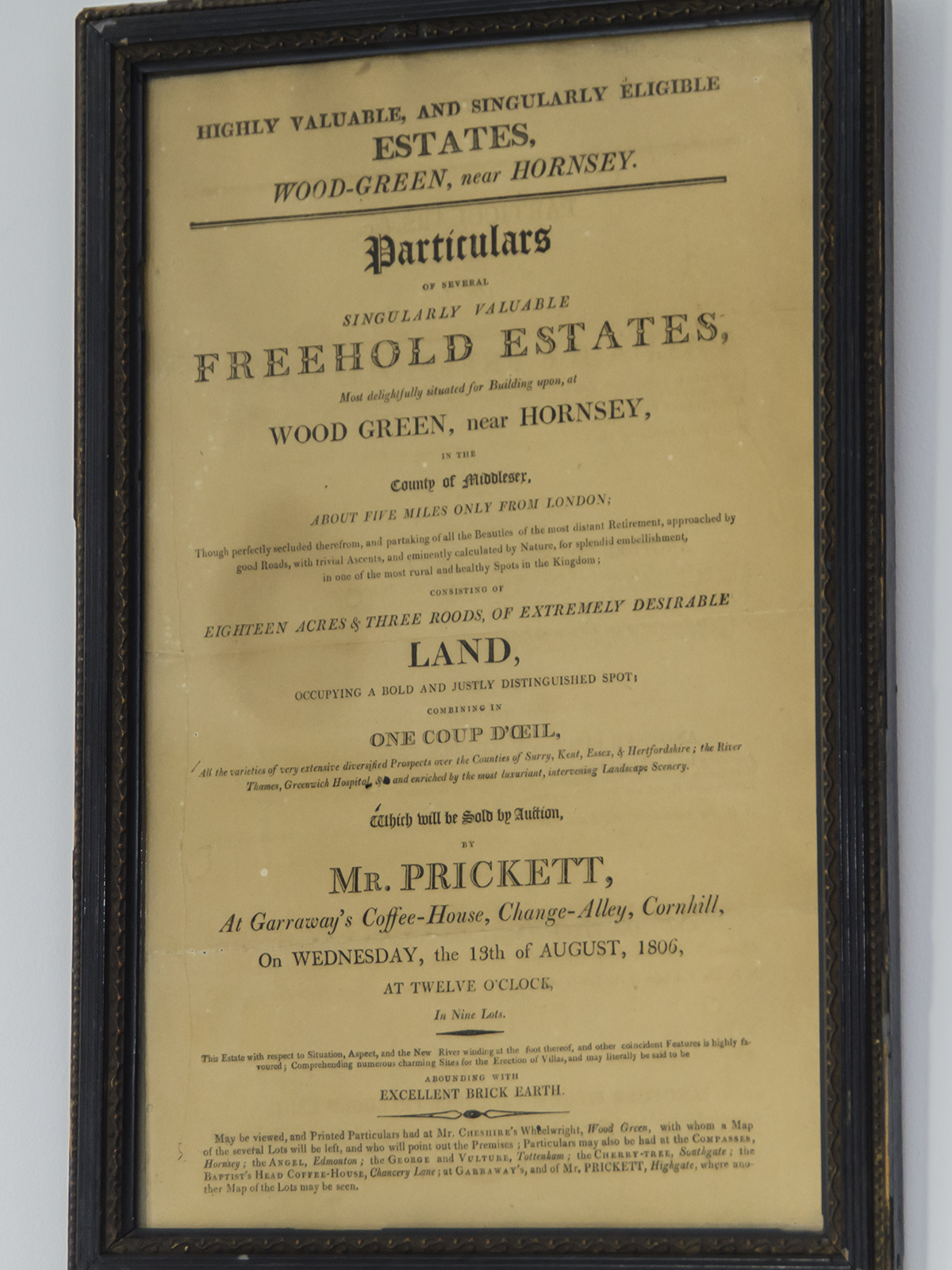 Sales Particulars used by Prickett and Ellis in 1806 in the sale of 'wood green'.